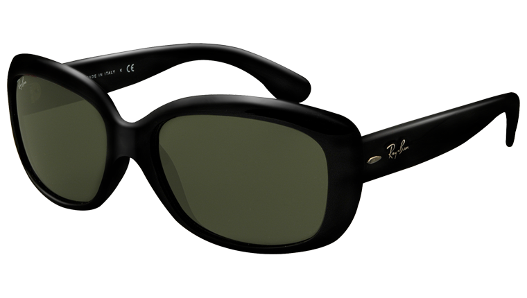 Sunglasses model made by Rayban.